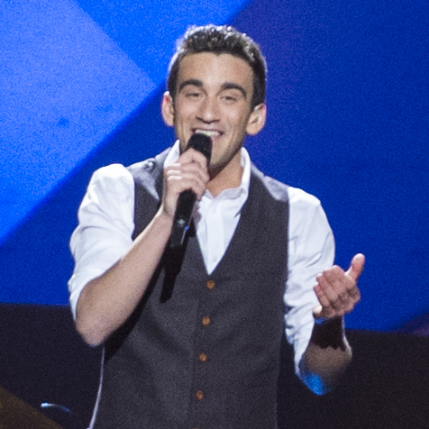 Gianluca representing Malta with the song "Tomorrow" during the second dress rehearsal of the second semi final of the Eurovision Song Contest 2013 in Malmö. (Help translate this text)